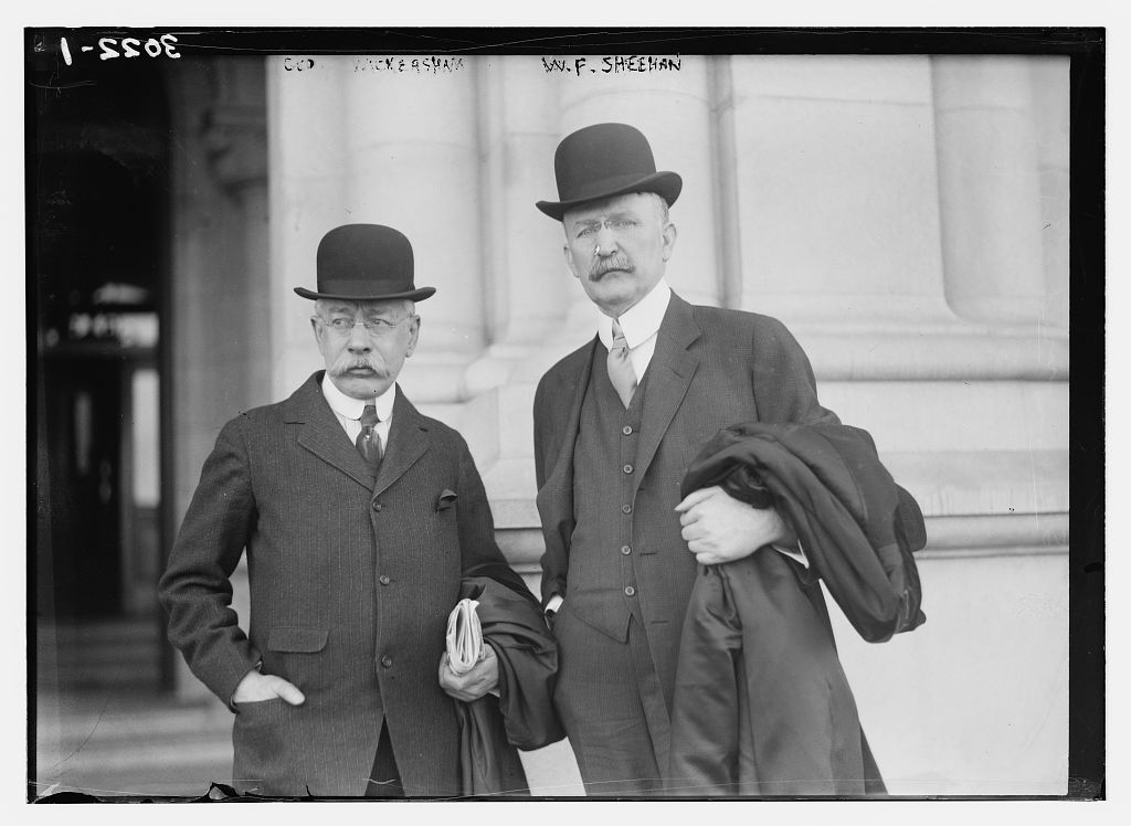 Bain News Service,, publisher. George Woodward Wickersham and William Francis Sheehan in 1914 [between ca. 1910 and ca. 1915] 1 negative : glass ; 5 x 7 in. or smaller. Notes: Title from unverified data provided by the Bain News Service on the negatives or caption cards. Forms part of: George Grantham Bain Collection (Library of Congress). Format: Glass negatives. Repository: Library of Congress, Prints and Photographs Division, Washington, D.C. 20540 USA, General information about the Bain Collection is available at Persistent URL: Call Number: LC-B2- 3022-1